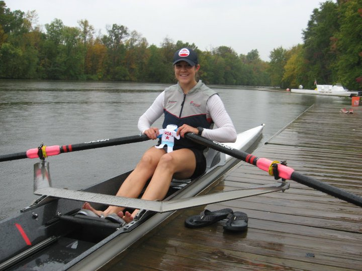 Olympic Rower Jen Kaido